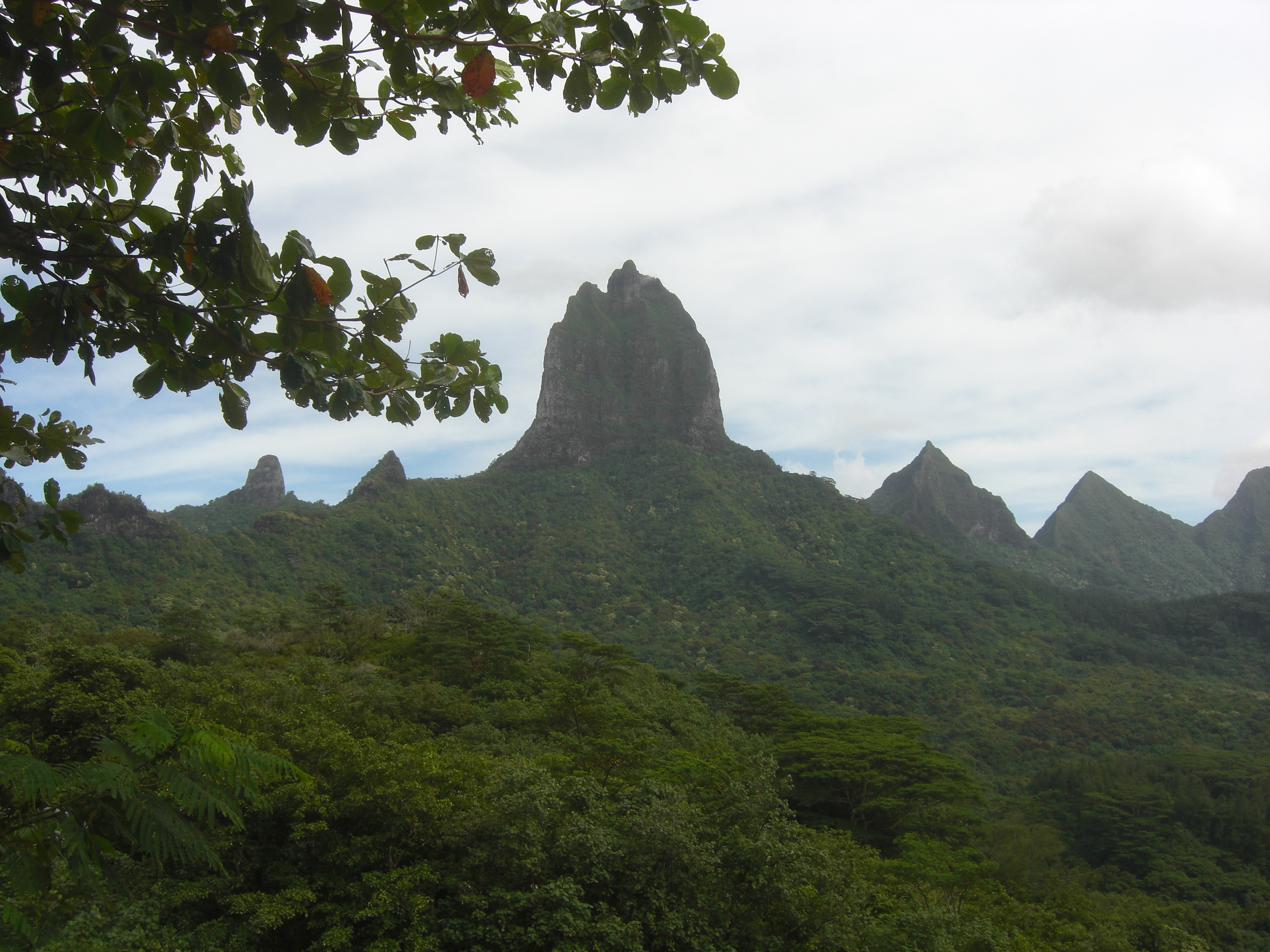 Moorea (view of mountains from Belvedere Lookout)